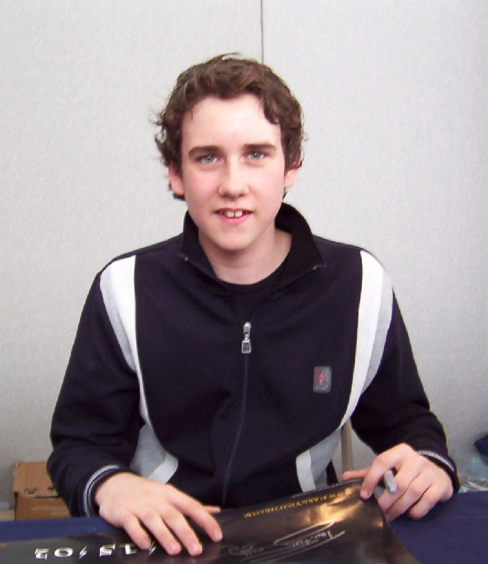 Matthew Lewis